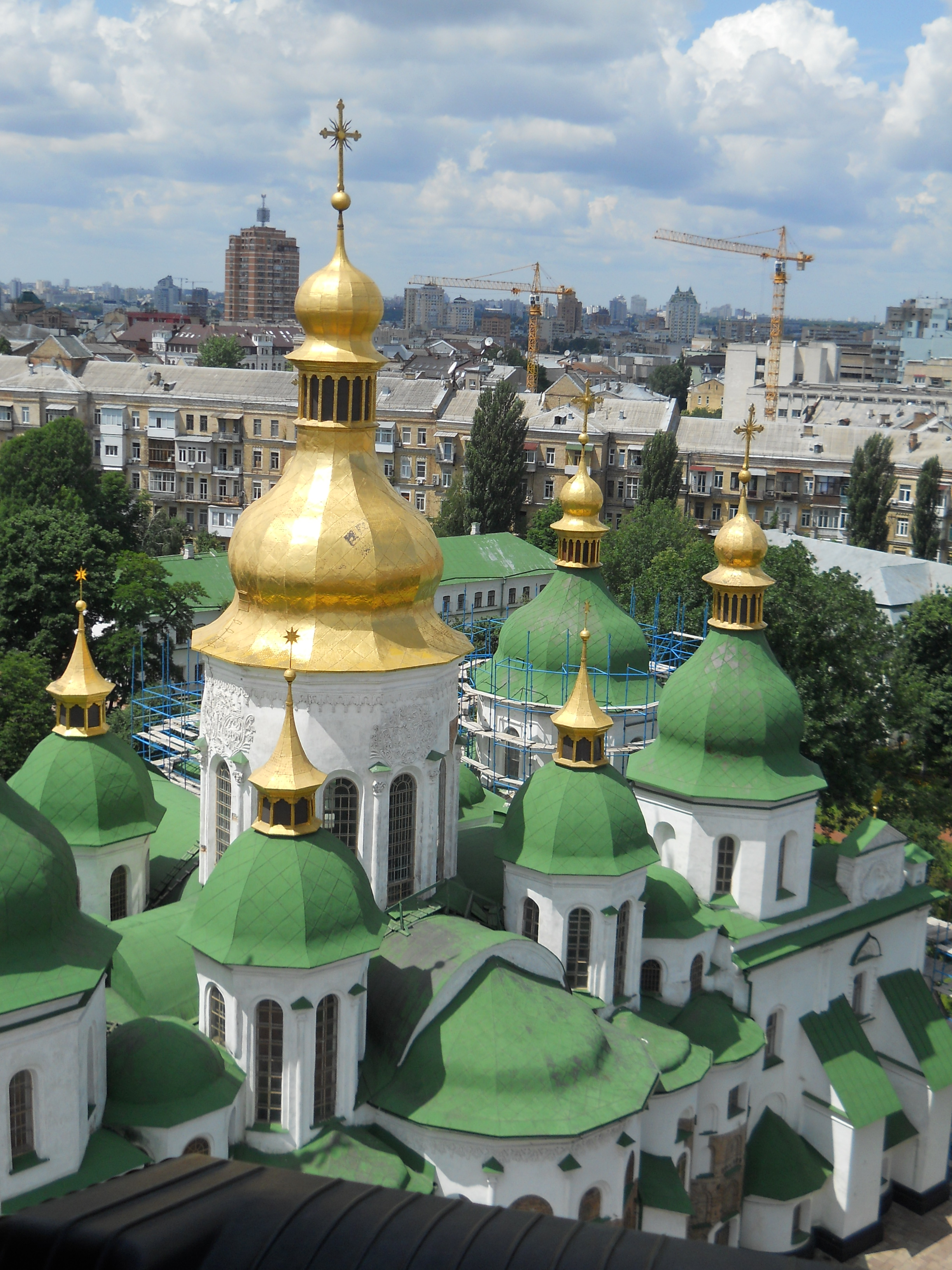 View of Kiev seen from the belltower of the Saint Sophia Monastery in Kiev, the capital of Ukraine.